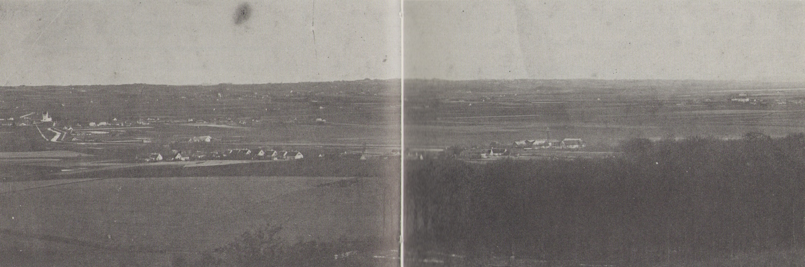 Lammefjorden about 1920, after the desiccation in 1874.